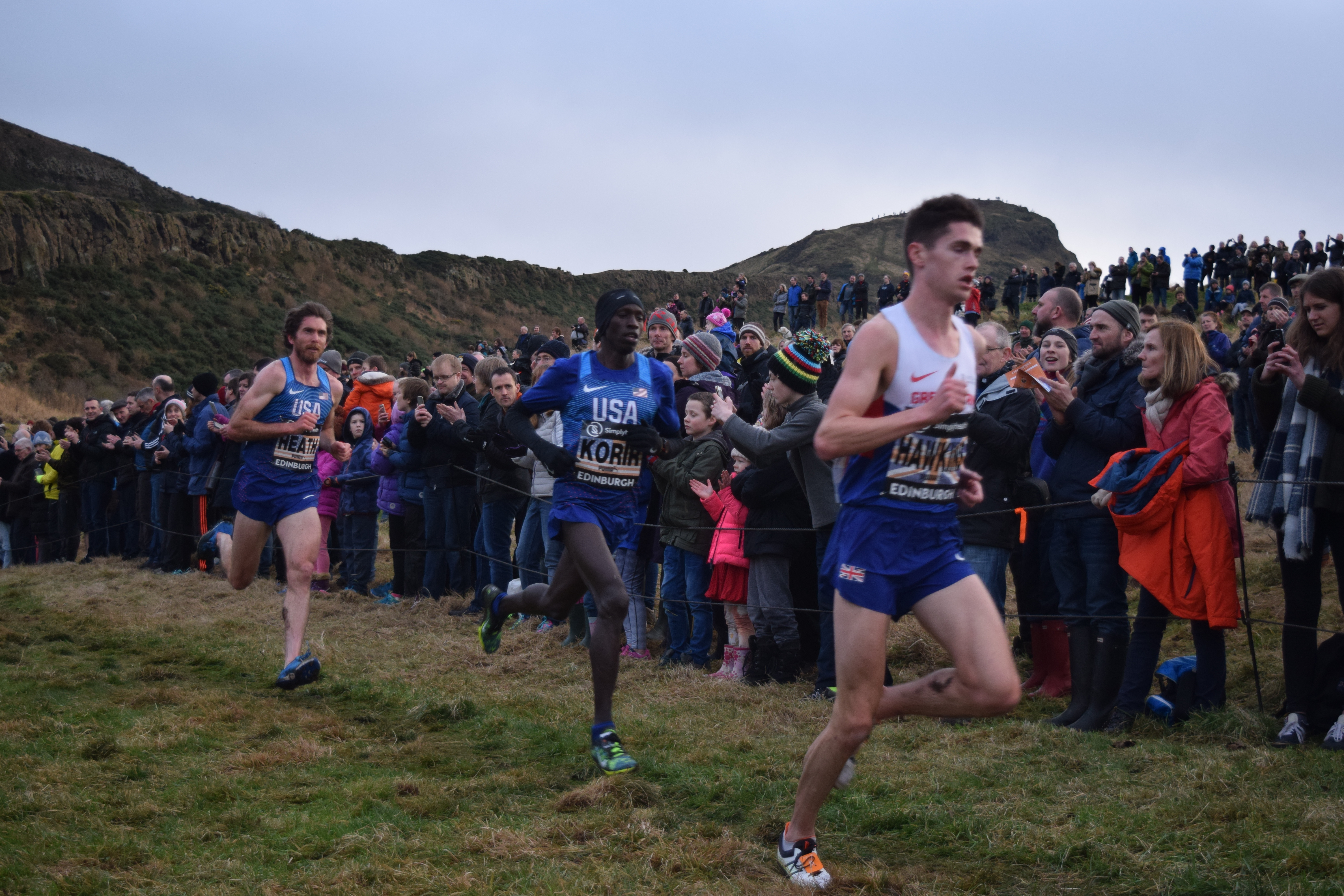 Great Edinburgh International Cross Country 2017